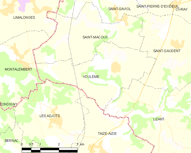 Map of French municipality Voulême